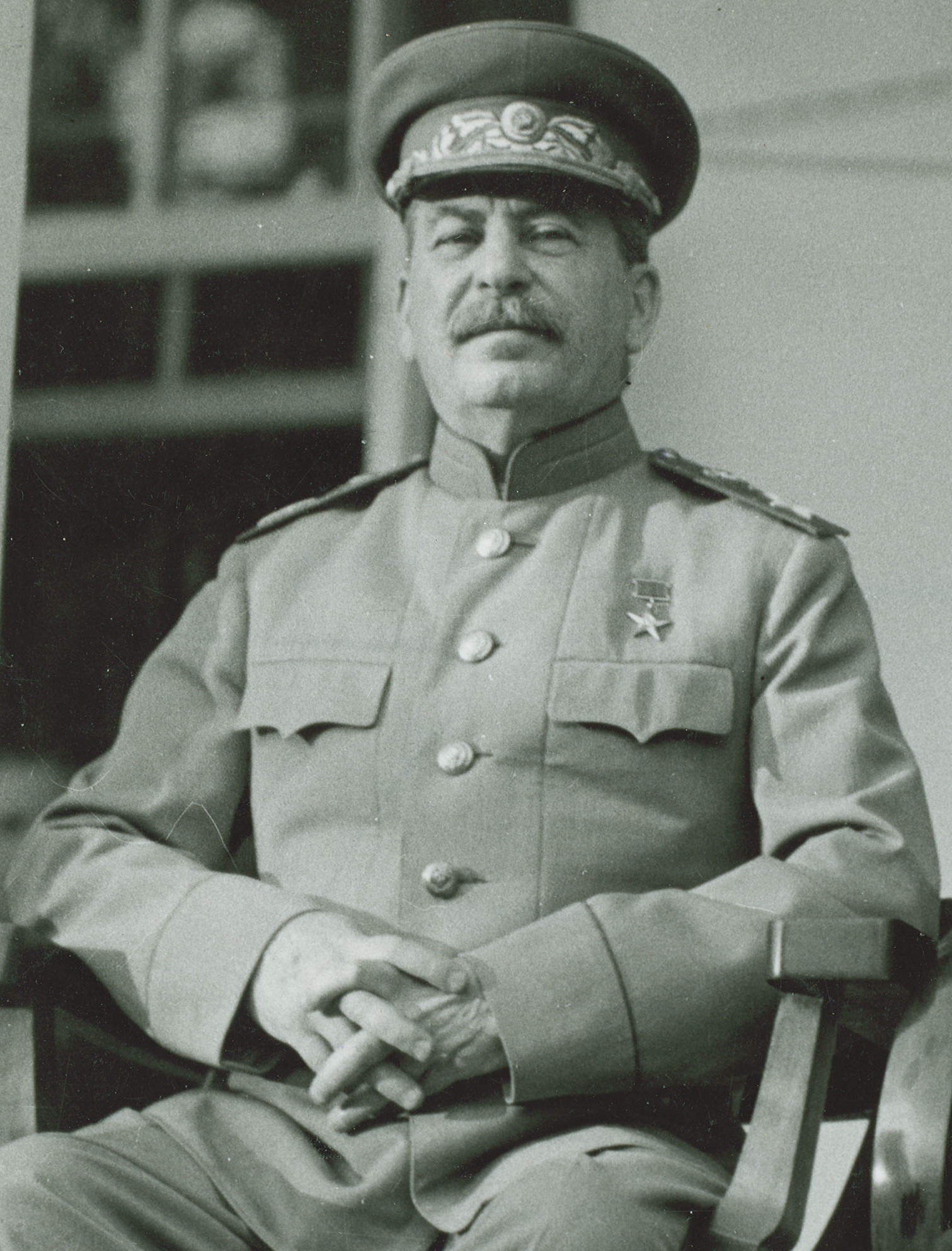 A cropped image of Joseph Stalin during the Tehran Conference. In the full photo he is sitting beside Franklin D. Roosevelt, and Winston Churchill on the portico of the Russian Embassy.